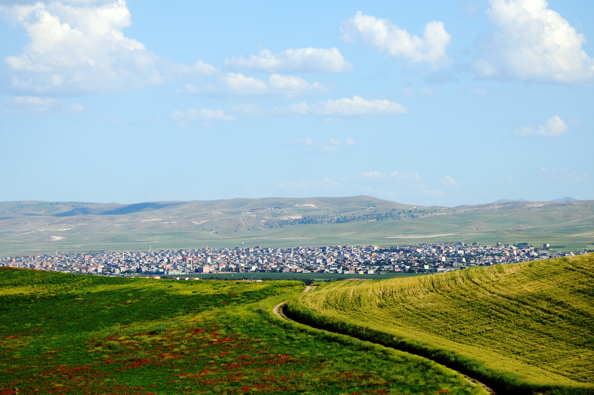 Kurdish city